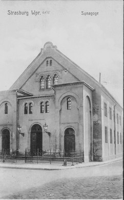 Synagogue in Brodnica